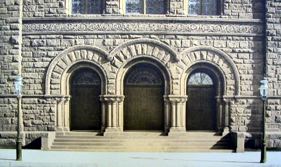 An 1889 photo detailing the entrance porch of the West-Park Presbyterian Church on the Upper West Side, New York City, taken from American Architect and Building News. Looking east across Amsterdam Avenue.